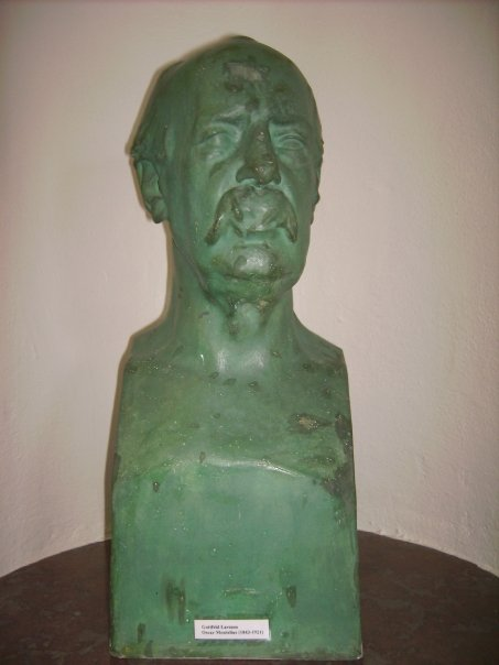 Oscar Montelius by Gottfrid Larsson (1875–1947) in the Museum of Skänninge.